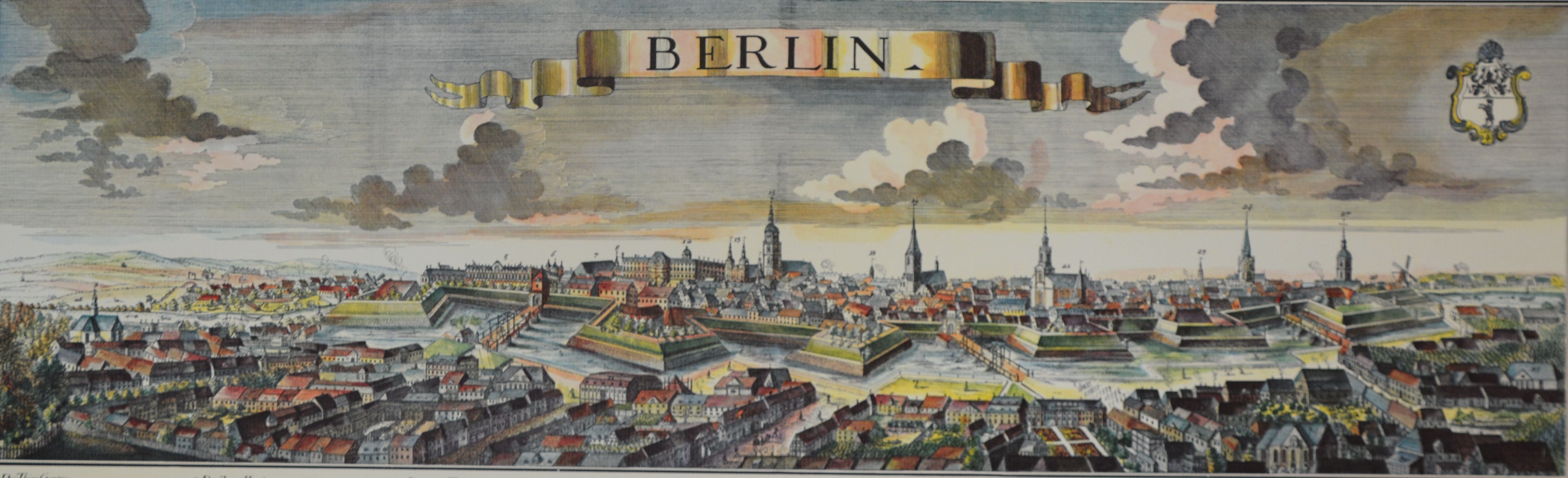 Engraving, Berlin, by Friedrich Bernhard Werner, year not known